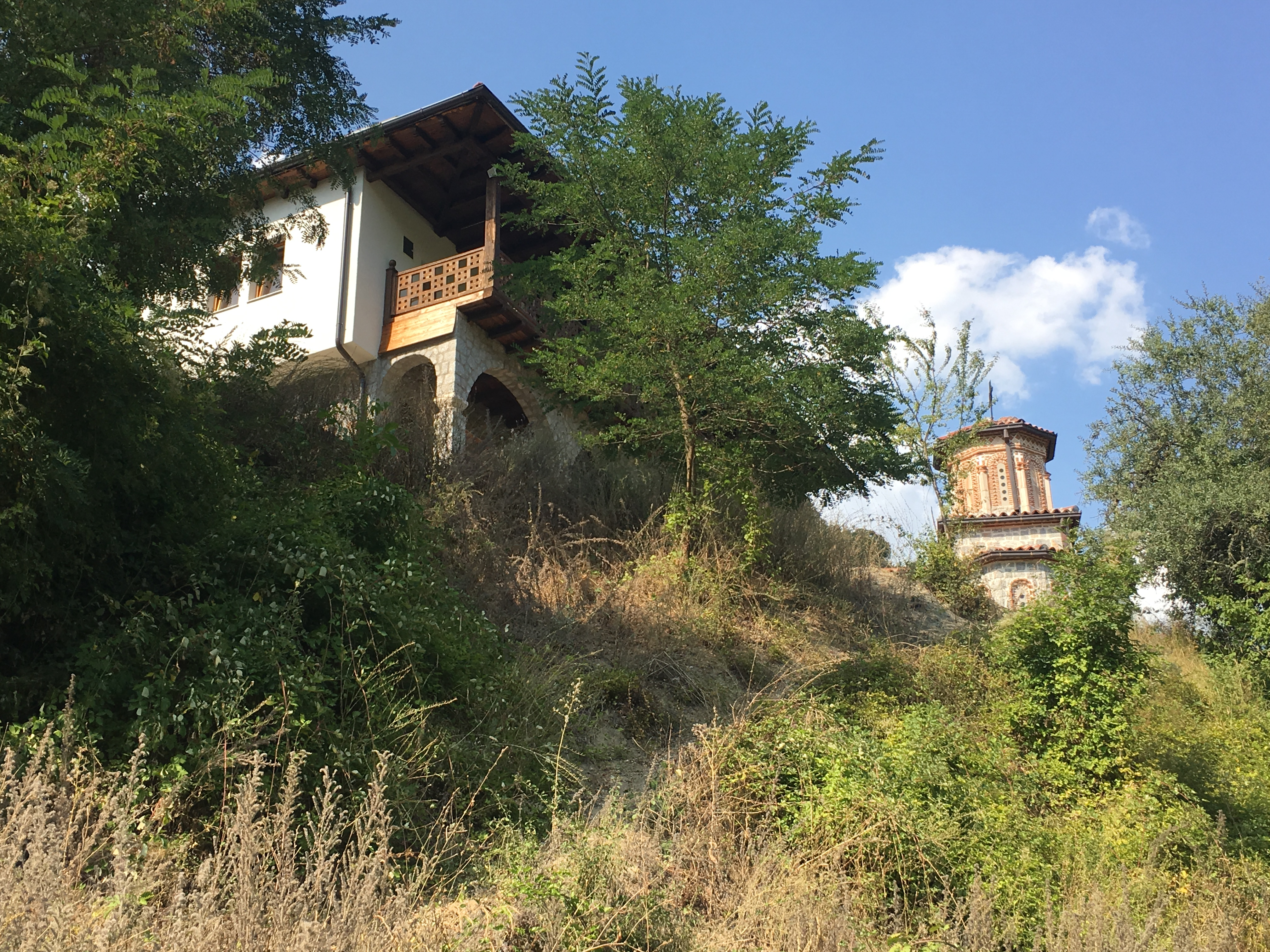 Openica Monastery